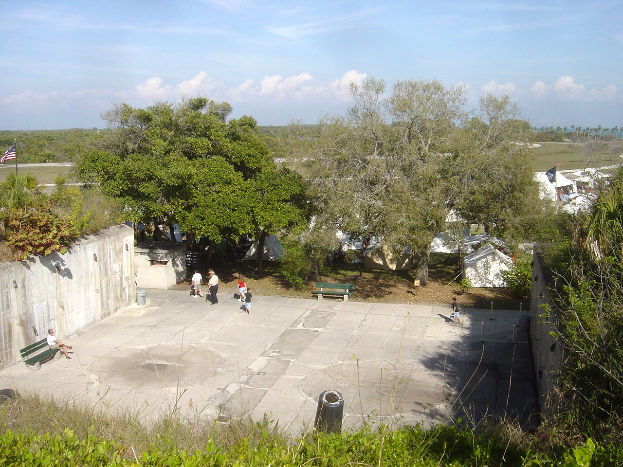 Interior of historic Fort Desoto, Fort De Soto Park, Florida.